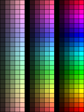 Created from scratch by me.